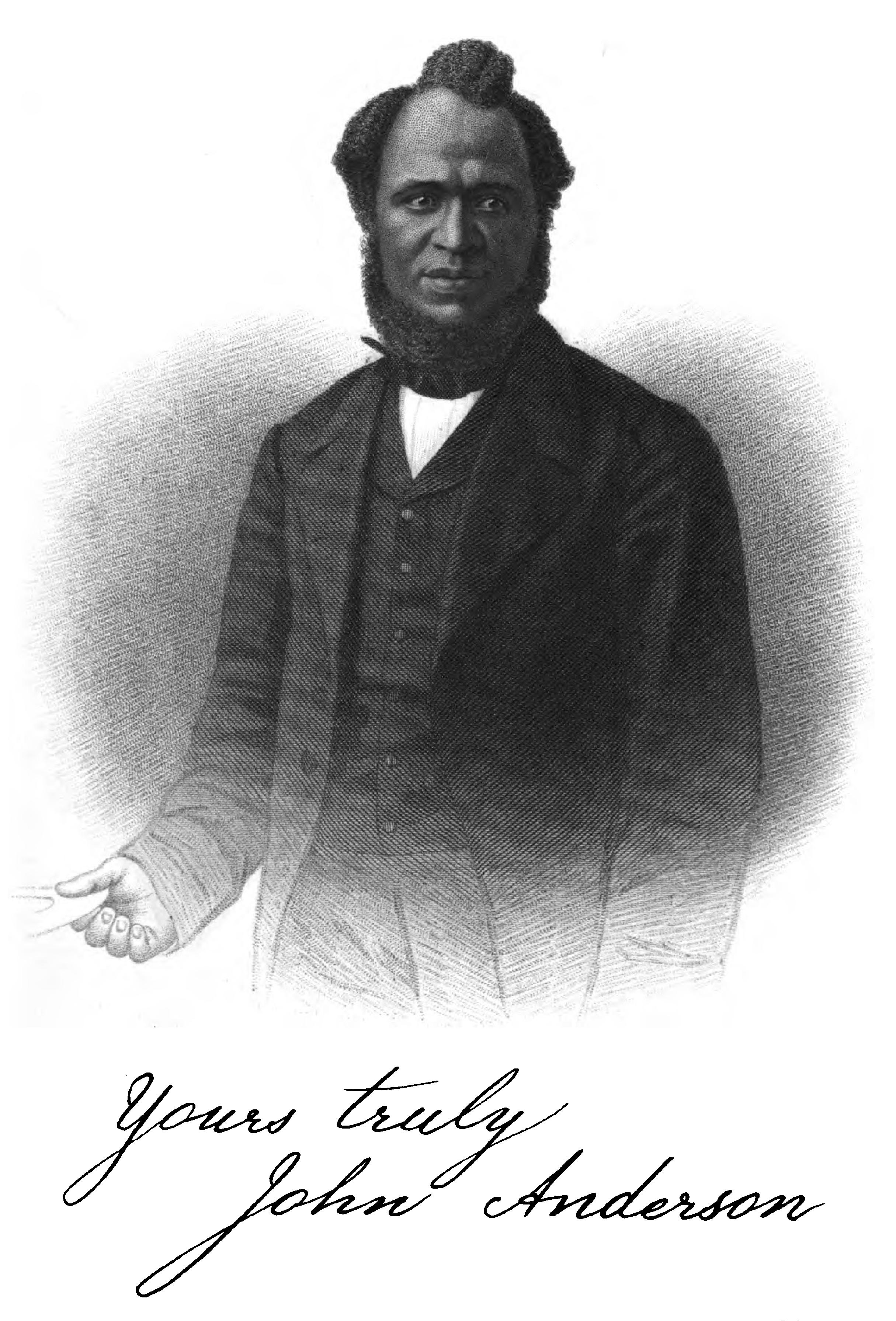 Engaving of John Anderson (1863)